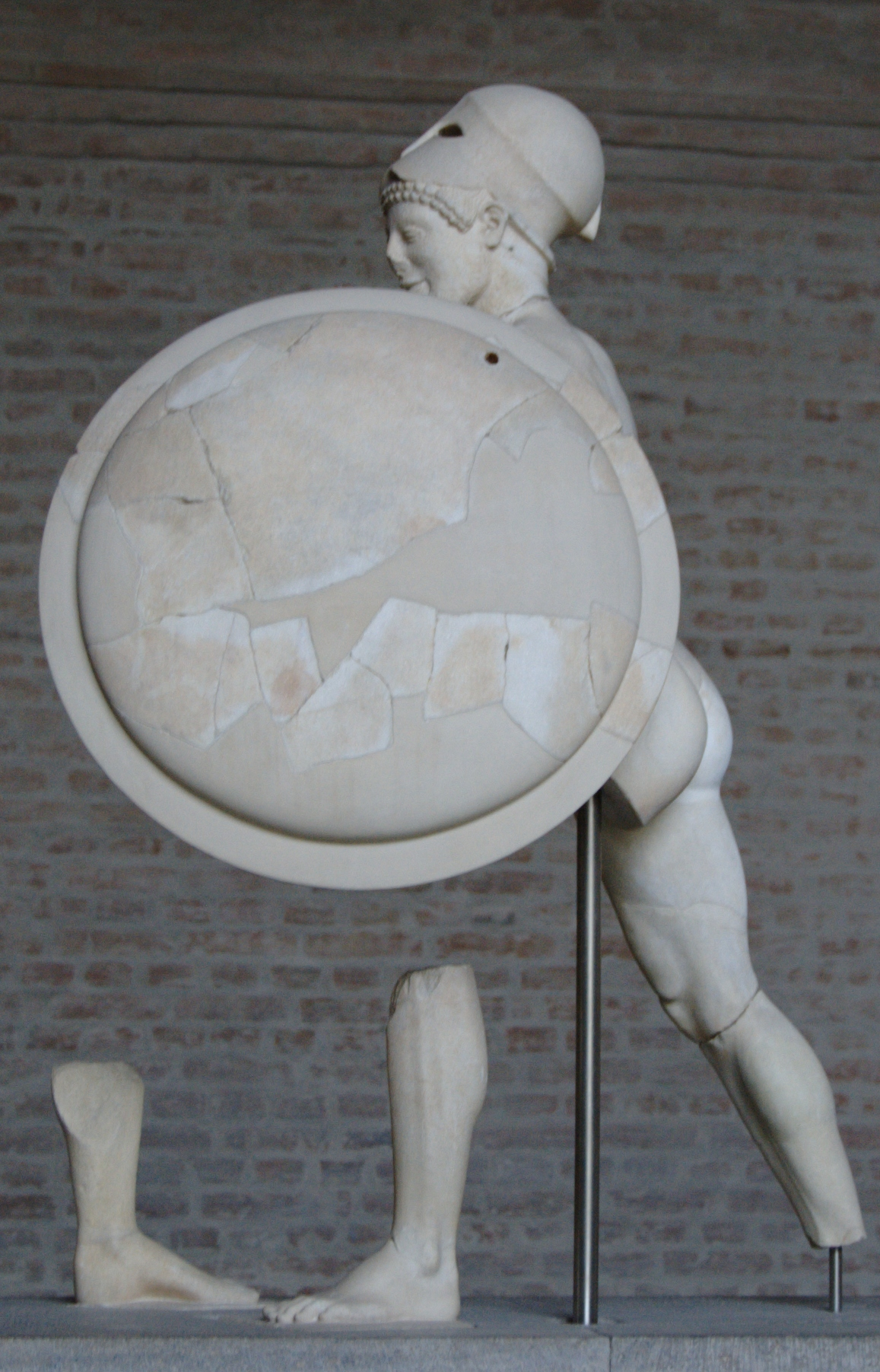 Ajax the Great, figure W-IX of the west pediment of the Temple of Aphaia, ca. 505–500 BC.